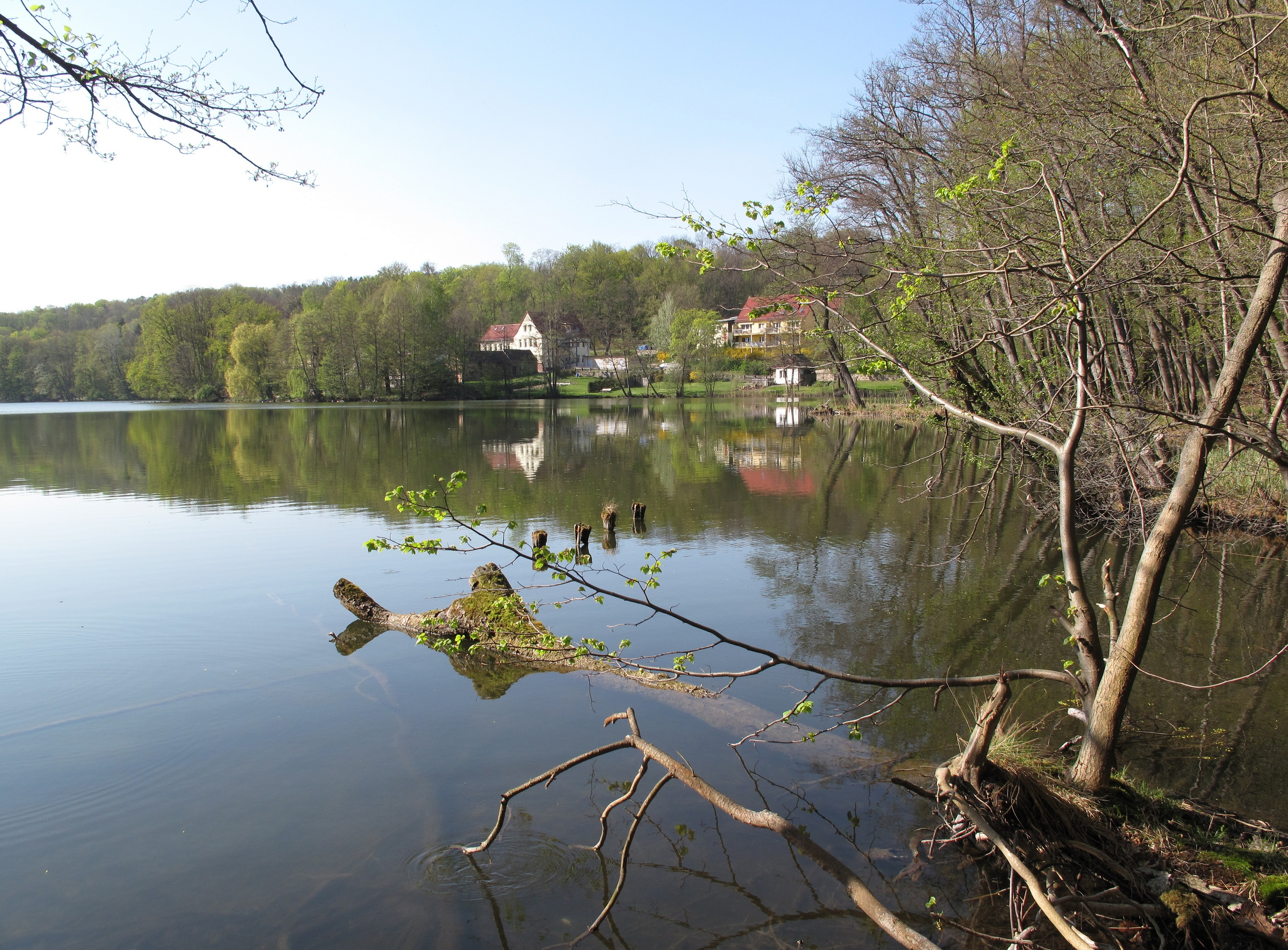 The Große Tornowsee is a lake in the hill country „Märkische Schweiz“ and in the Märkische Schweiz Nature Park. It is situated in Pritzhagen, a village of the municipality Oberbarnim in the District Märkisch-Oderland, Brandenburg, Germany. The lake covers 10 hectare.